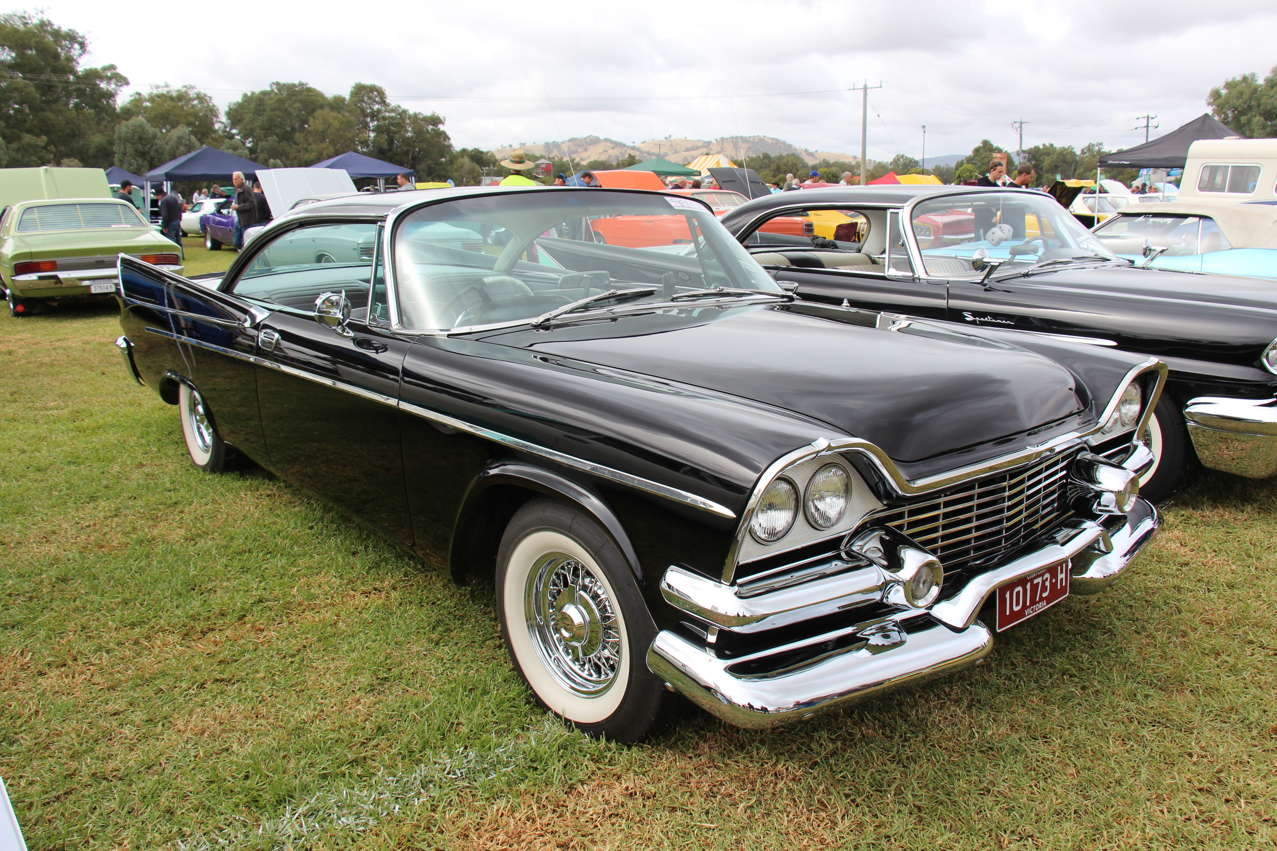 Coronets were made from 1949-76, the 1957-59 4th generation, got an all new design, it was long and low with big fins and quad headlights. Base model was the Coronet, 230 cu in L-head straight-6 or the 325 cu in Red Ram V8, (4 door sedan and wagon, 2 door coupe and hardtop). then mid; the Royal, 325 cu in V8 (4 door sedan, 2 door coupe, hardtop and convertible) and top, the Custom Royal, 325 cu in V8 (4 door sedan, 2 door coupe, hardtop and convertible)